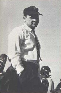 Coach Jerry Claiborne, head coach of the Virginia Tech Hokies from 1961 until 1970.